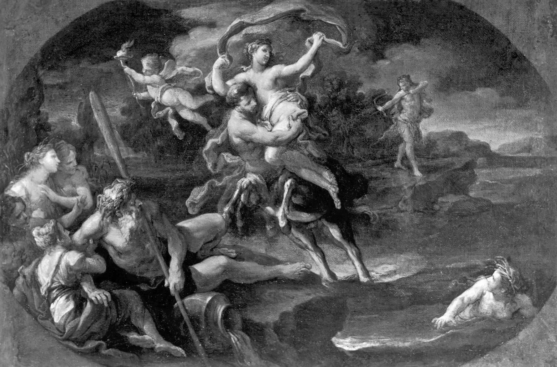 In a popular story involving the loves of the gods from Greco-Roman mythology, the centaur Nessus escapes through the Euenus River with the abducted Deianira, the wife of Hercules, who comes to her rescue. Clad in a lion's skin, he is about to shoot the arrow which will kill the centaur. The cupid with a torch symbolizes the amorous passions that motivated Nessus. The old man with the urn gushing water is the river-god Euenus, and the attending women are nymphs, spirits of the water. The oval painting field indicates that the painting was to be set into a larger framework, and, indeed, Pozzi was primarily known for his decorative ensembles.